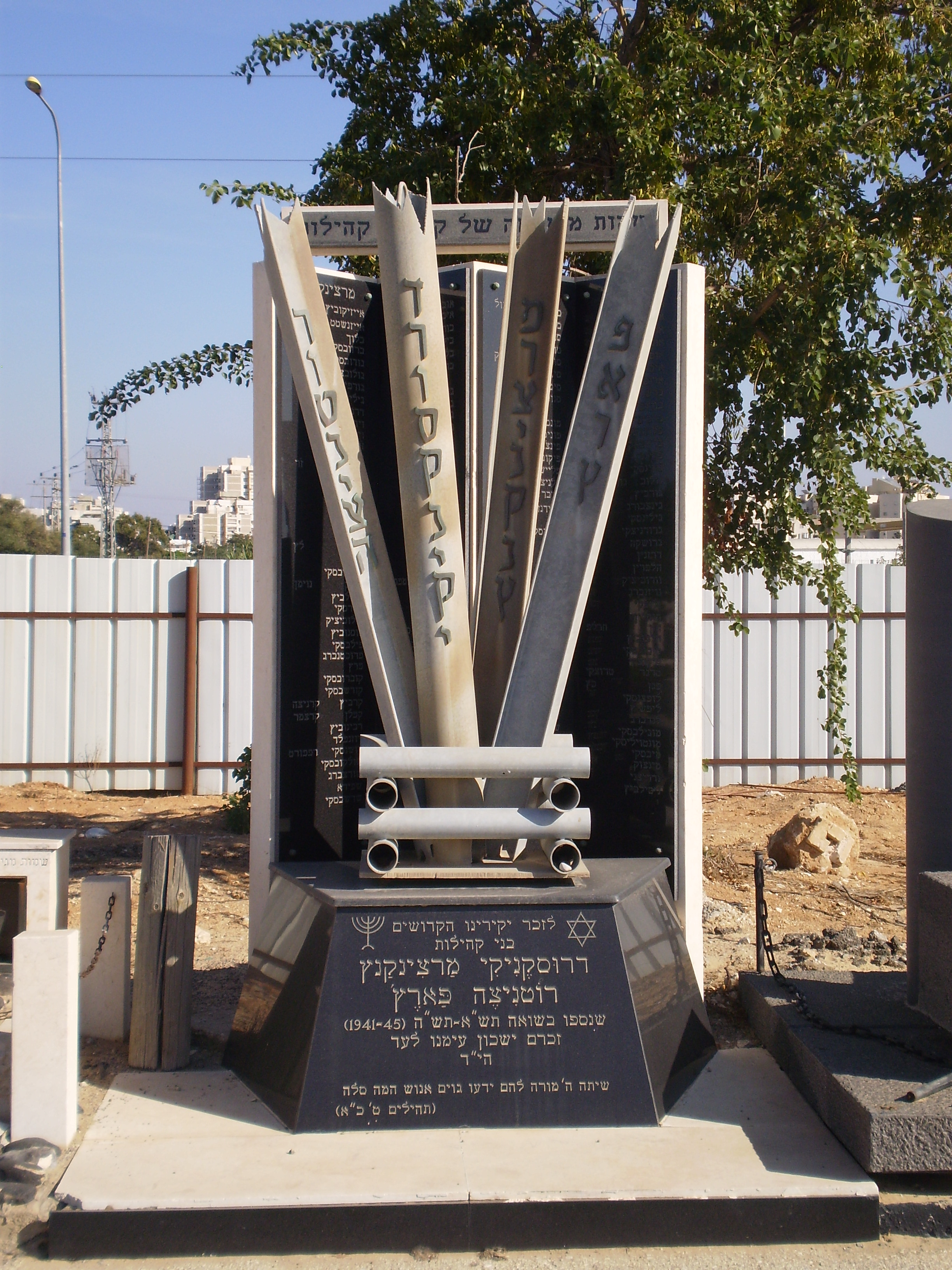 Druskininkai and Budaniv Jewery Holocaust memorial at Holon Cemetery